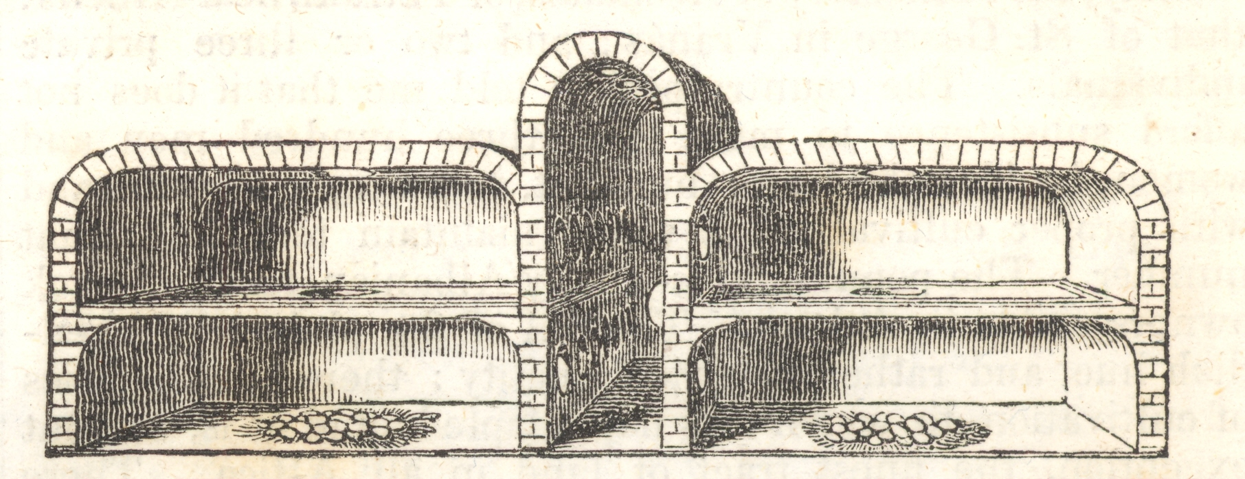 "Traverse section and perspective elevation of an Egyptian Egg-oven." Published in "The Penny Magazine", Volume II, Number 87, August 10, 1833.